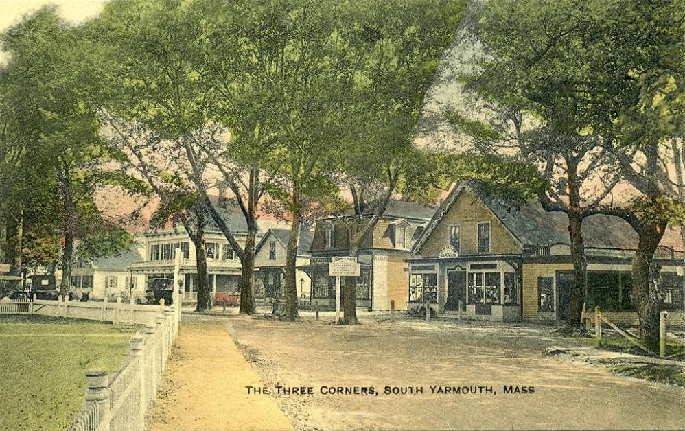 The Three Corners, South Yarmouth, Massachusetts; from a c. 1910 postcard.